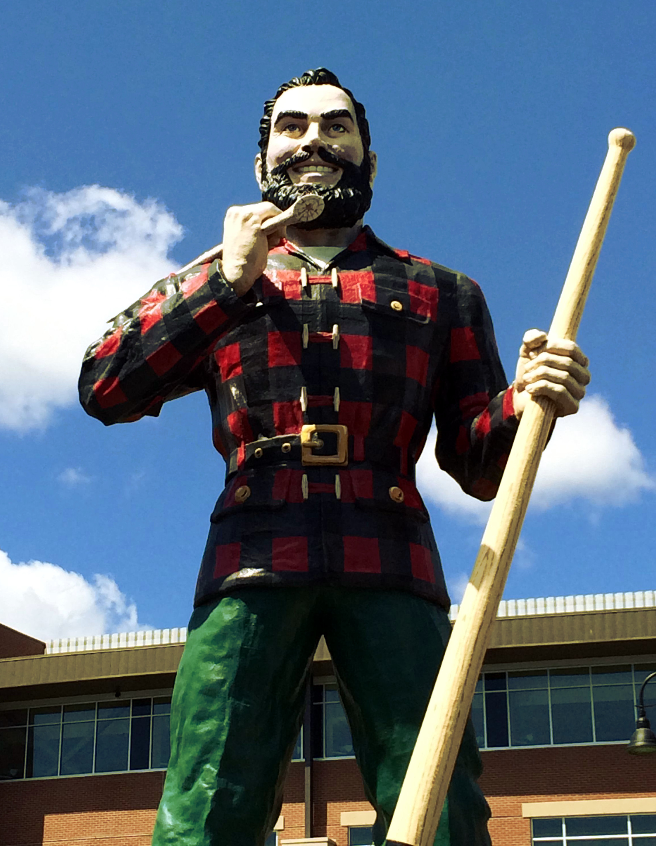 An image of the Paul Bunyan statue in Bangor, Maine.